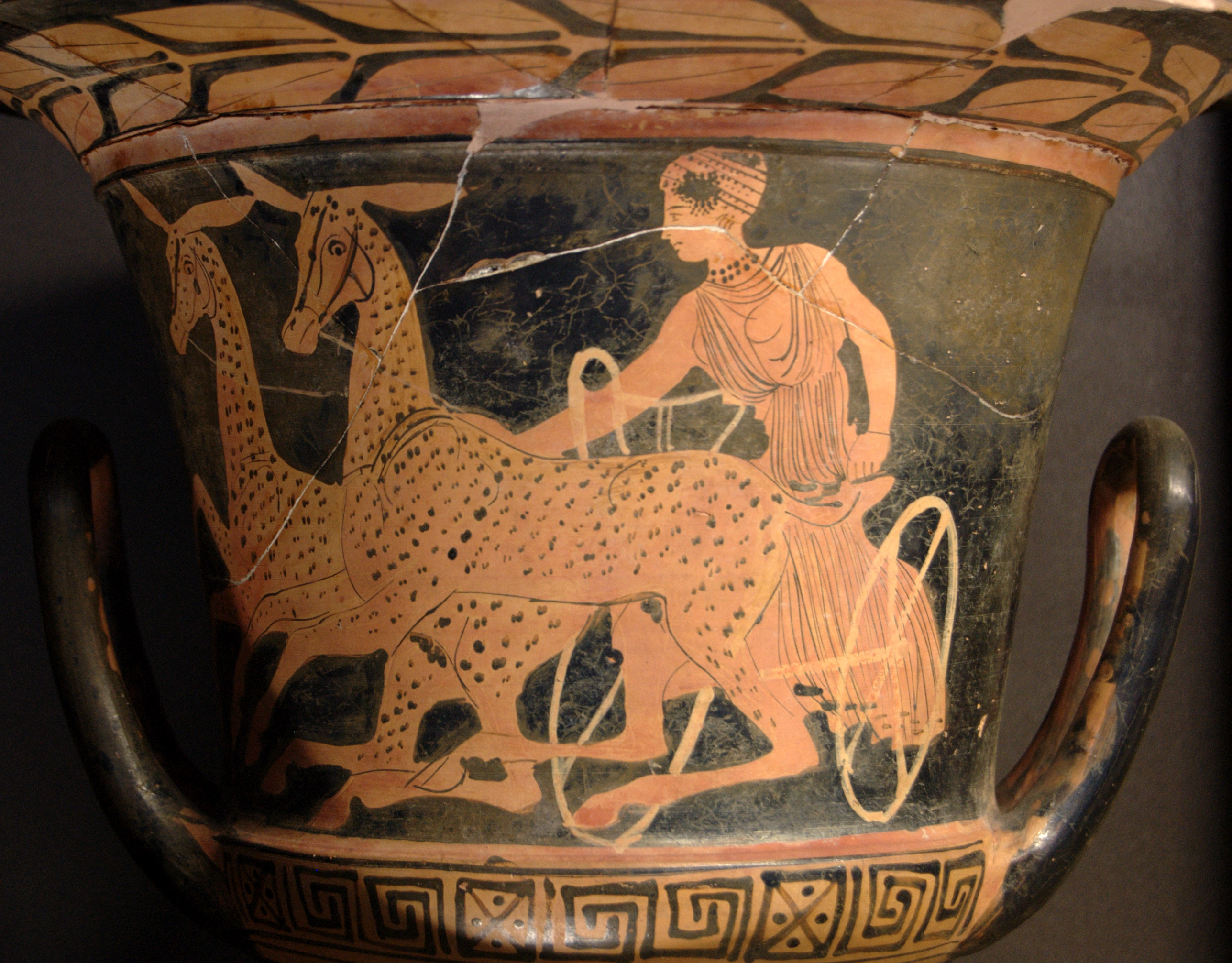 Artemis in a charriot drawn by hinds. Side A from an Boeotian red-figure calyx-krater, 450–425 BC.